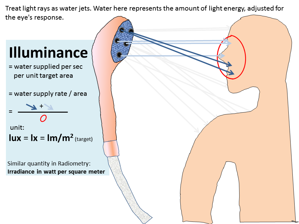 illuminance